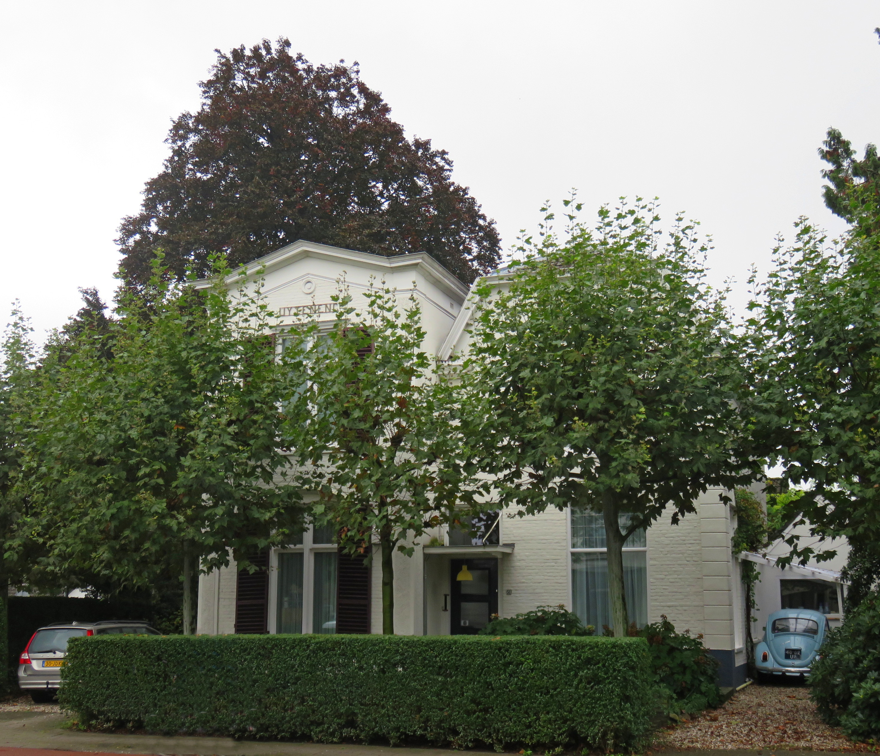 Uyteneng, house in Bennekom (NL), on the corner of the Edeseweg Molenstraat